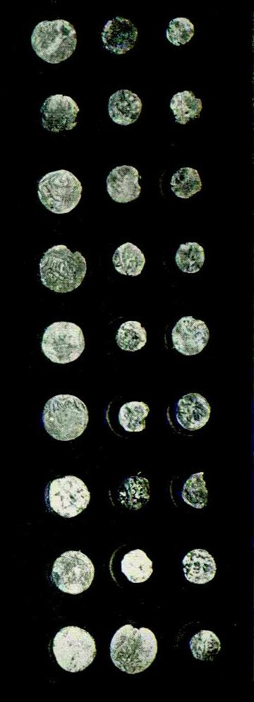 Medieval Mogadishan coins, Somalia Museum